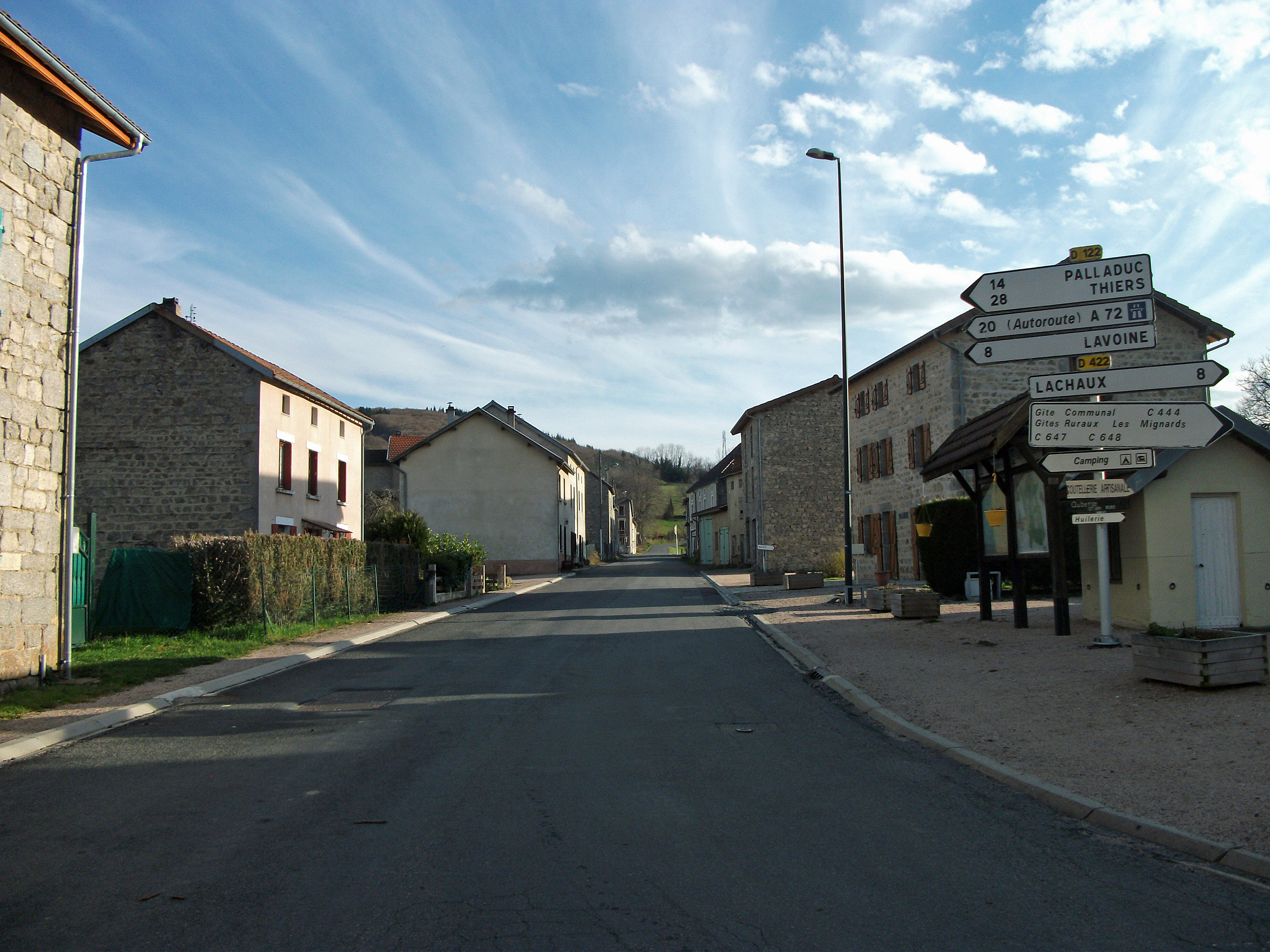 Departmental road 122 towards Palladuc, Thiers and Lavoine in La Guillermie, Allier [10574]